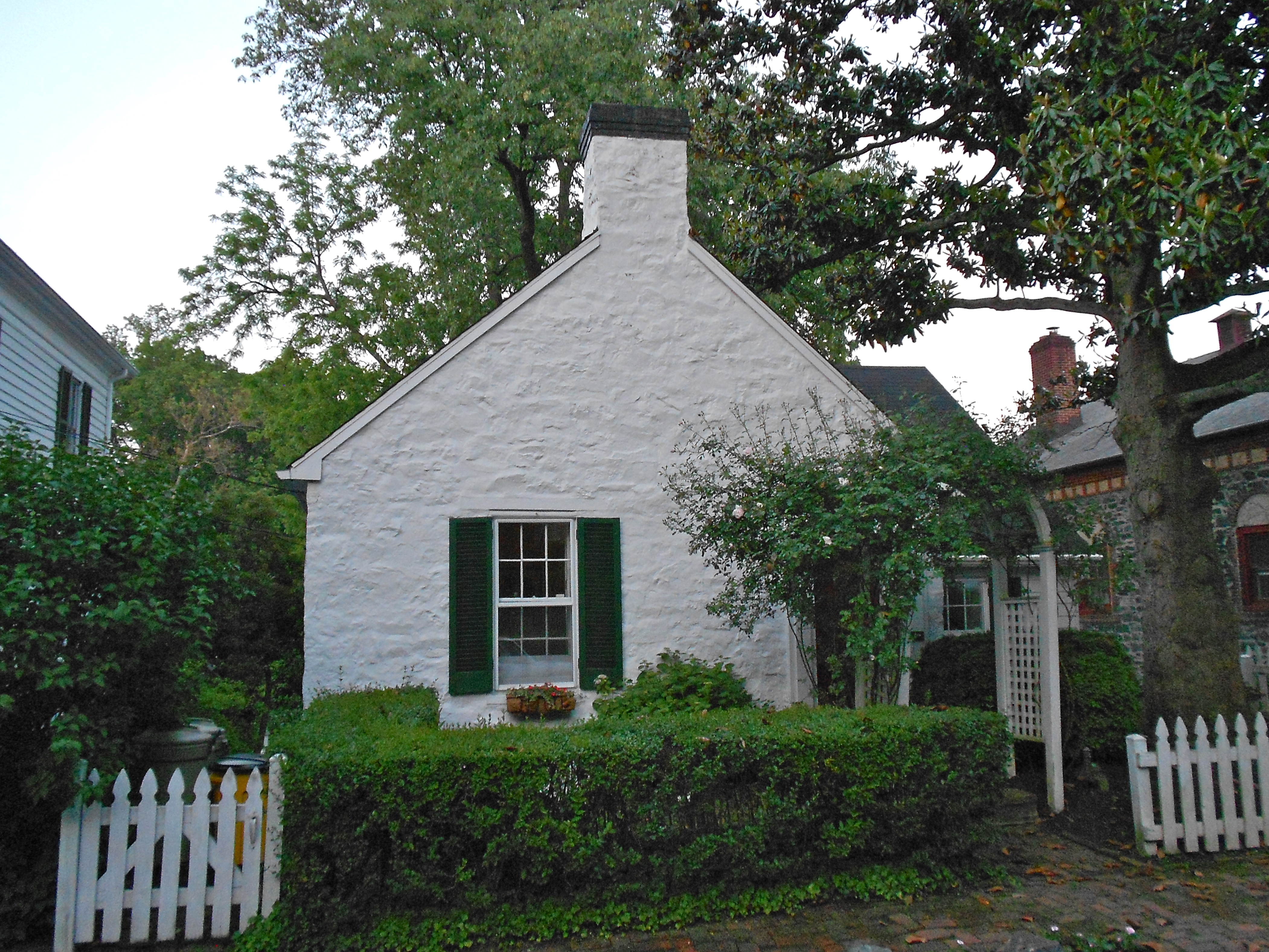 House next to the mill in Dickeyville Historic District on the NRHP since July 12, 1972 On Pickwick Road in Gwynn's Falls area of Baltimore, Maryland